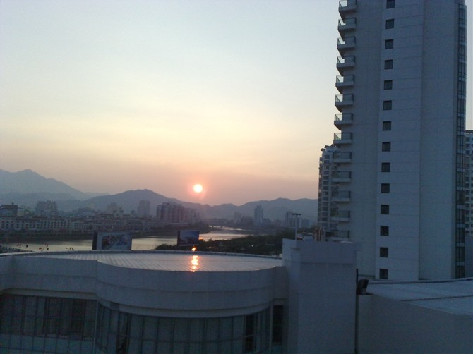 The sight of sunshine at Heyuan